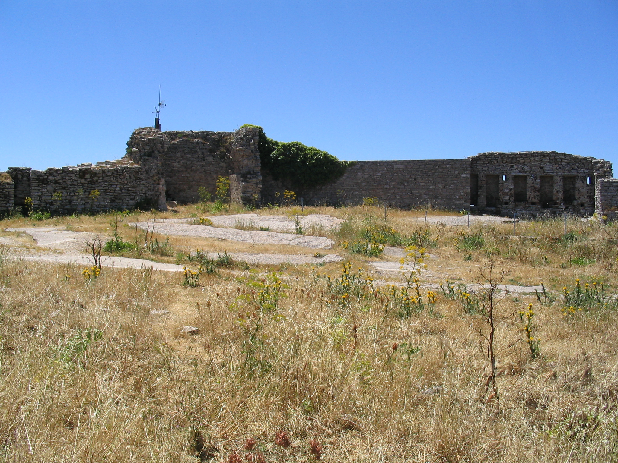 Fortress of Erice, Sicily, Italy